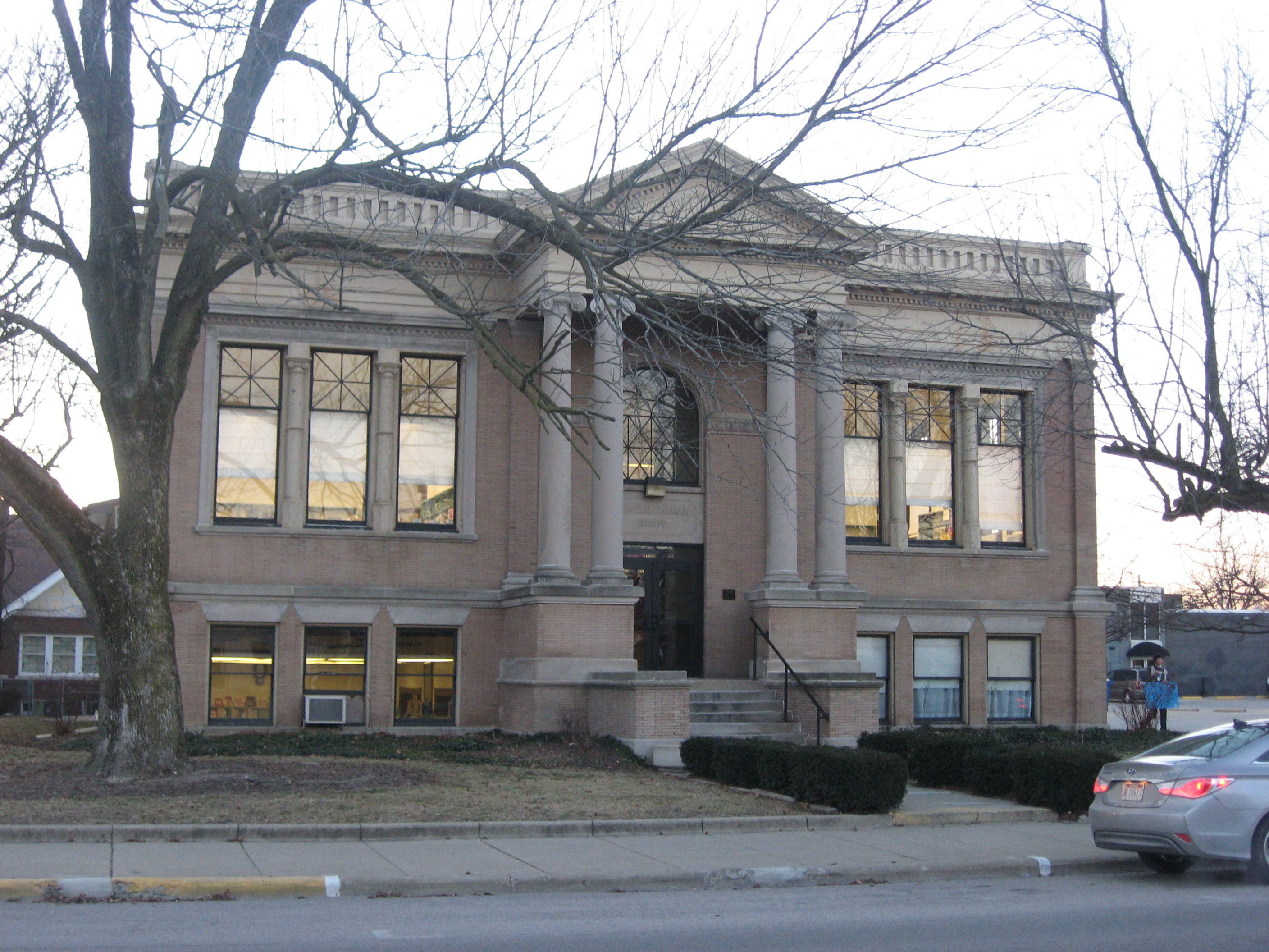 Front of the Paris Carnegie Public Library, located at 207 S. Main Street (U.S. Route 150/Illinois Route 1) in Paris, Illinois, United States. Built in 1904, it is listed on the National Register of Historic Places.